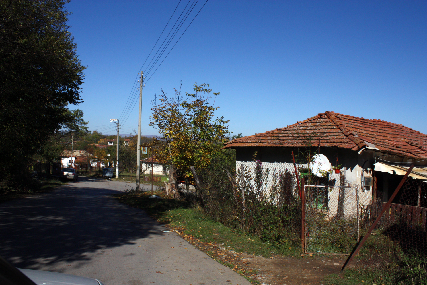 Prekraste main street (the road from Dragoman to Godech)